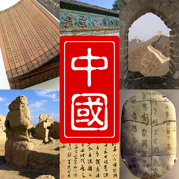 Composite piece with a Chinese theme - derivative work, center piece by Nat